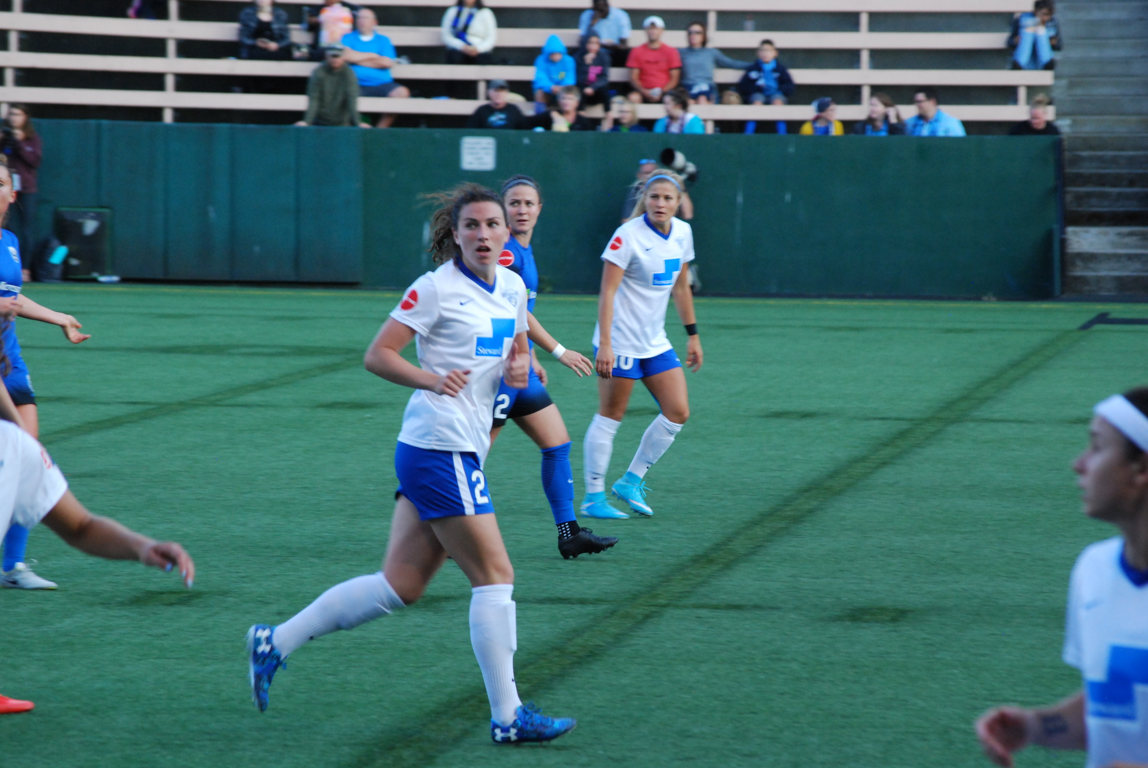 Morgan Andrews during a match against Seattle Reign FC, July 15, 2017